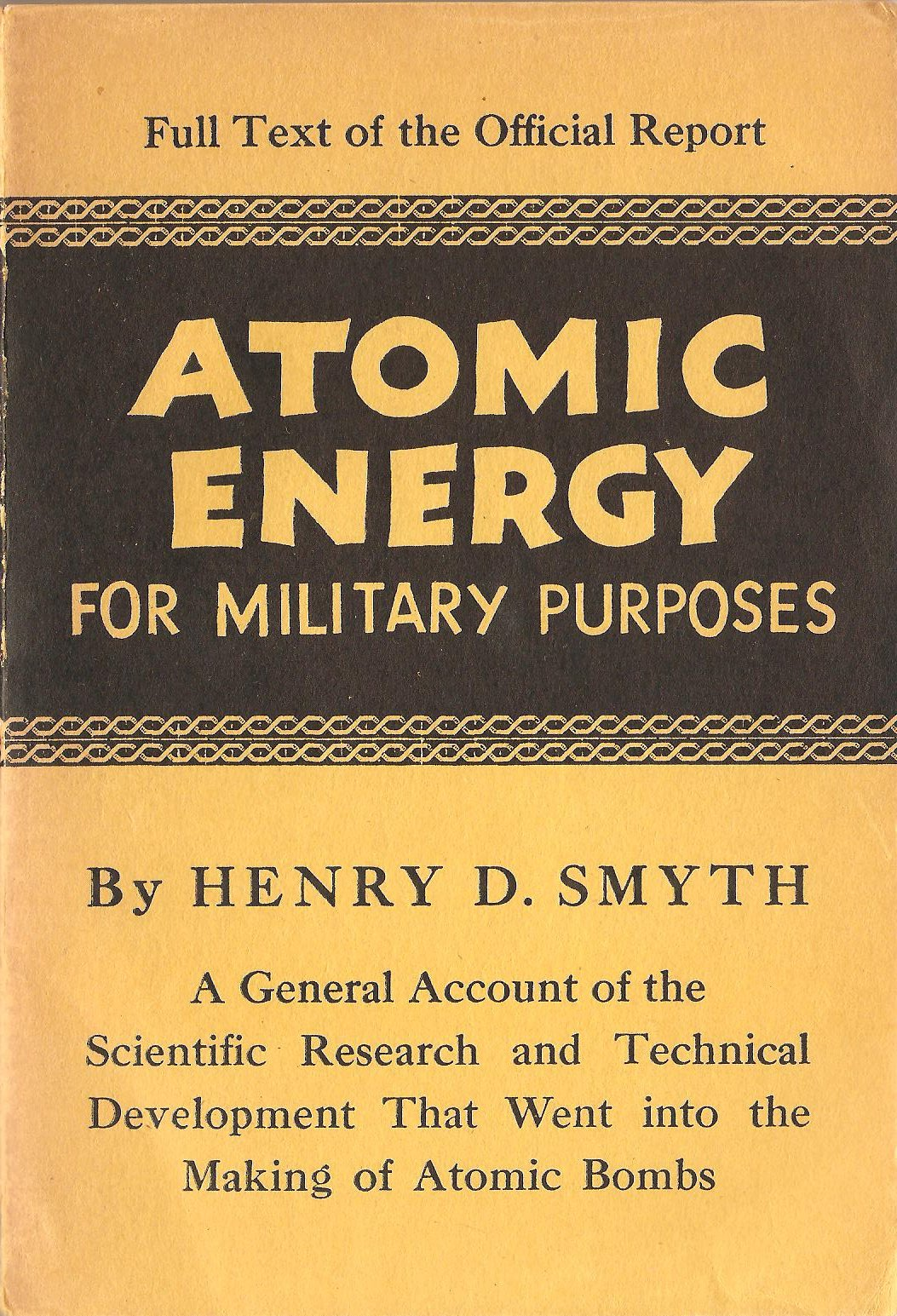 Copyright notice in book says, "Copyright 1945, by H. D. Smyth. Reproduction in whole or in part authorized and permitted."